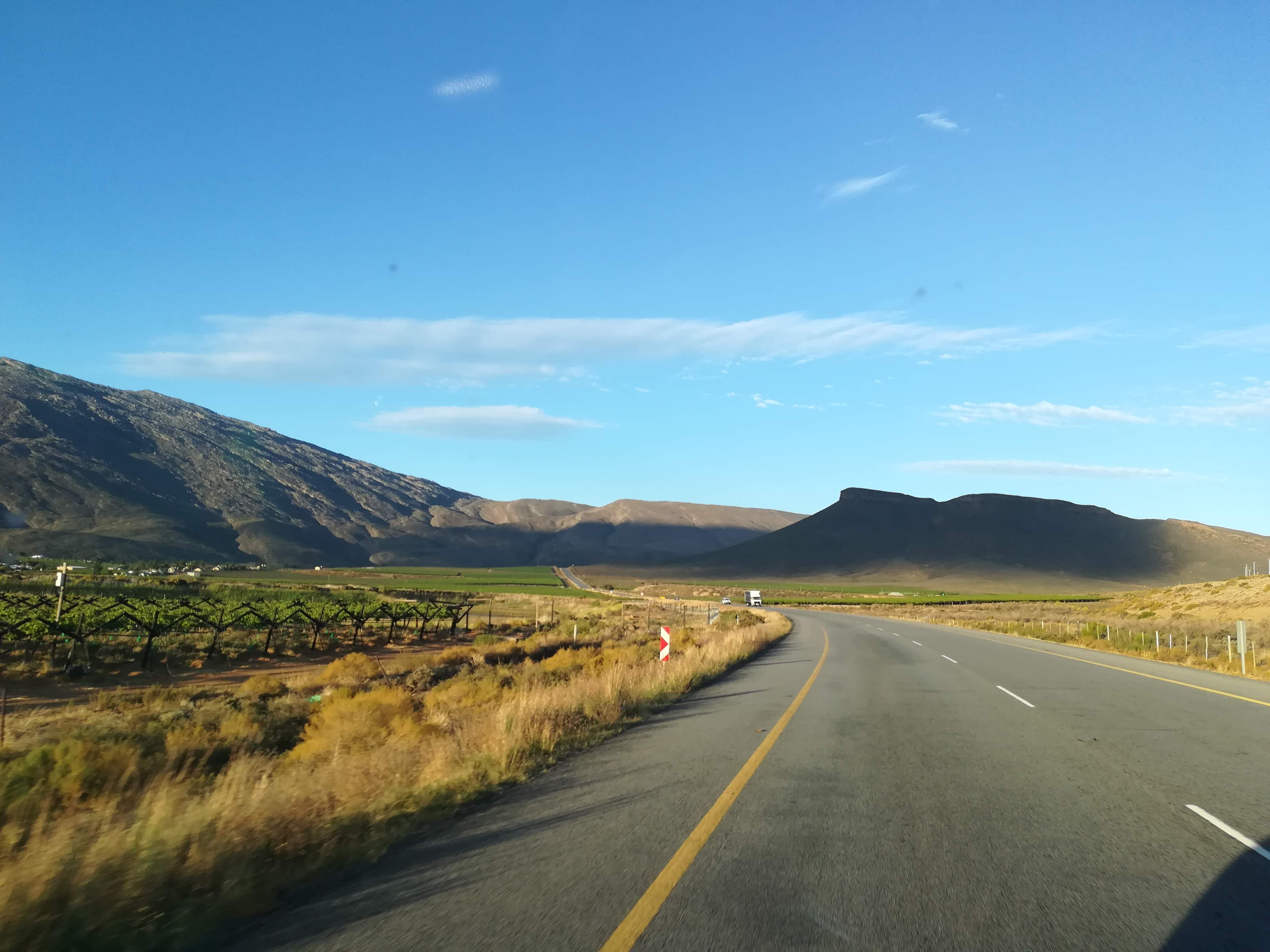 Farms on N1 leading outside Cape Town. The N1 is a national route in South Africa that runs from Cape Town through Bloemfontein, Johannesburg, Pretoria and Polokwane to Beit Bridge on the border with Zimbabwe. This is an image with the theme "Africa on the Move or Transport" from: South Africa